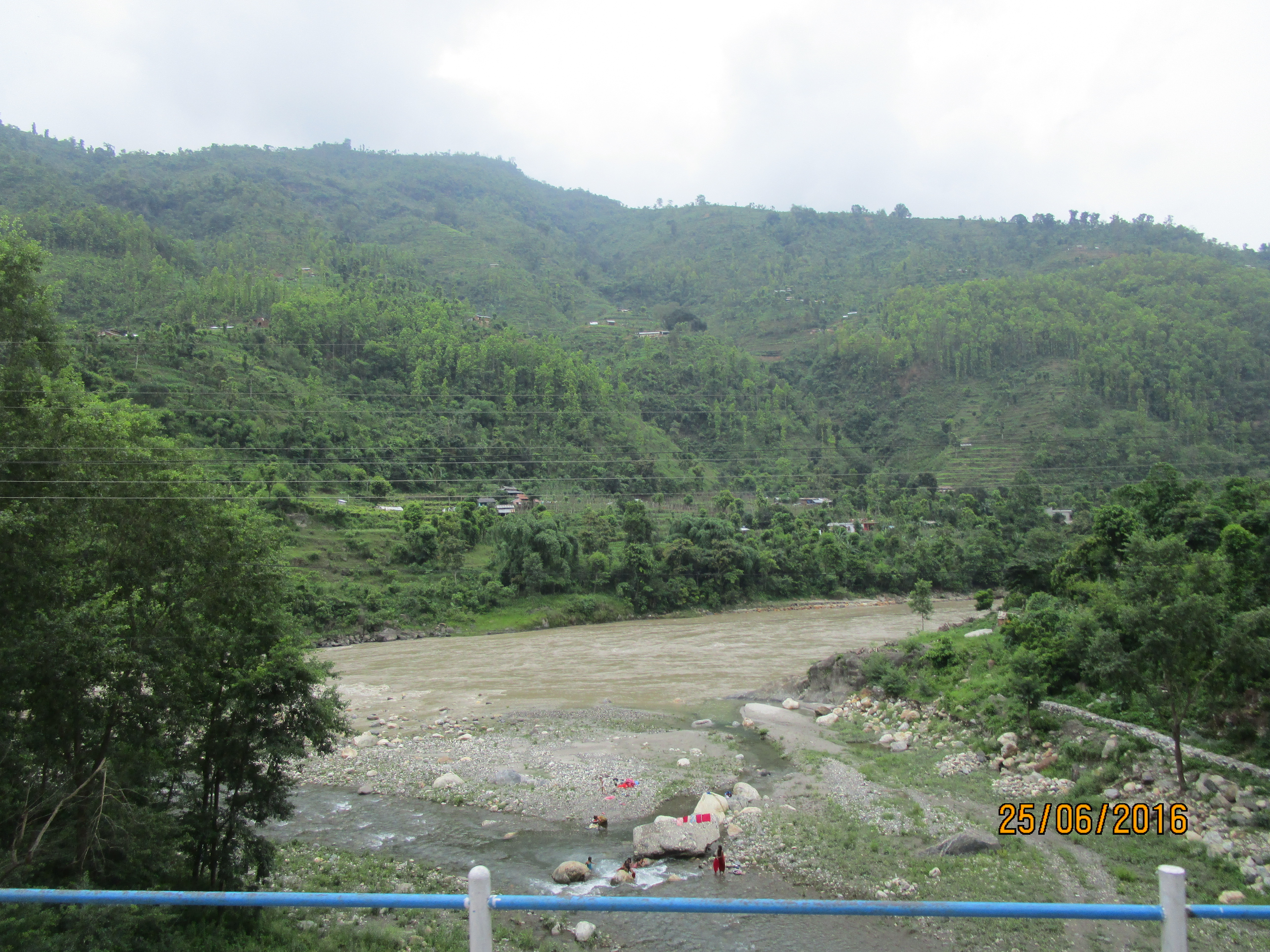 Meeting place of Hudi khola at Trishuli River, Dhading